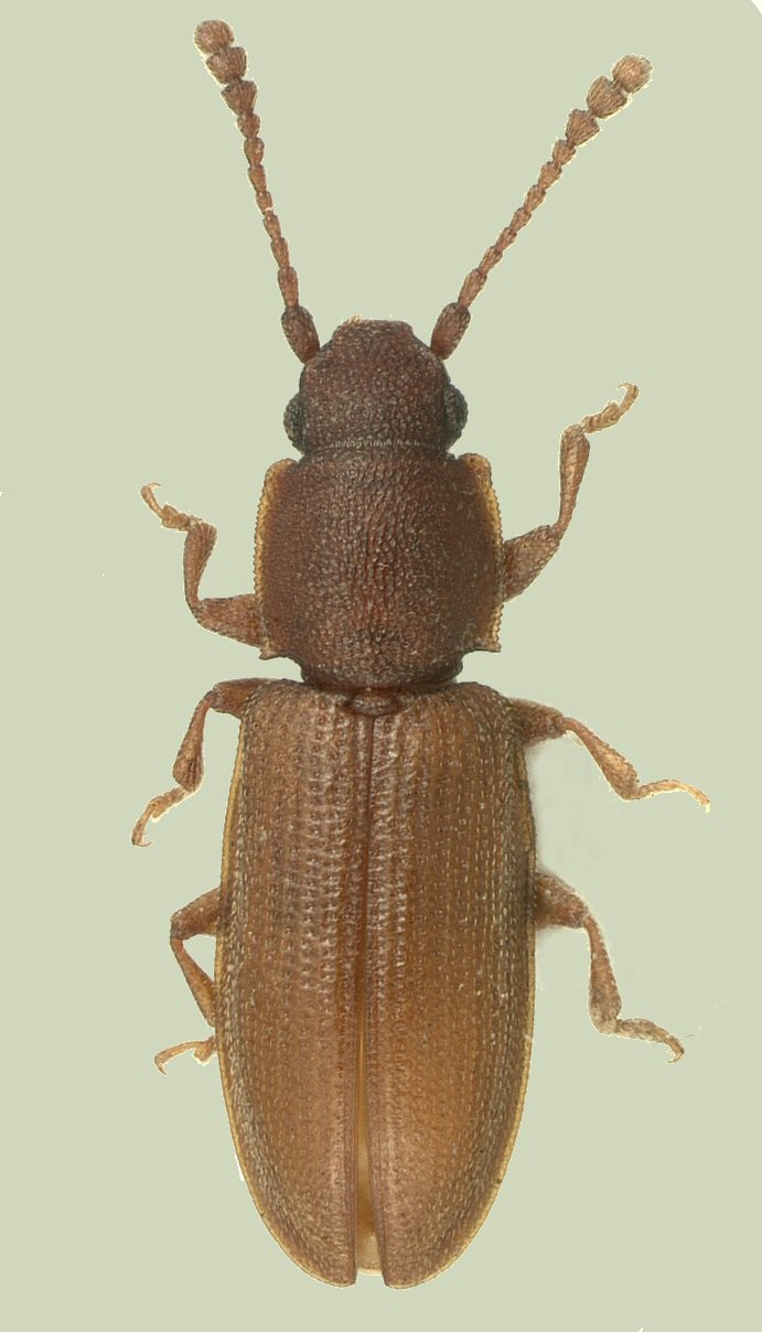 Dorsal habitus AutoMontage photo of Ahasverus longulus.